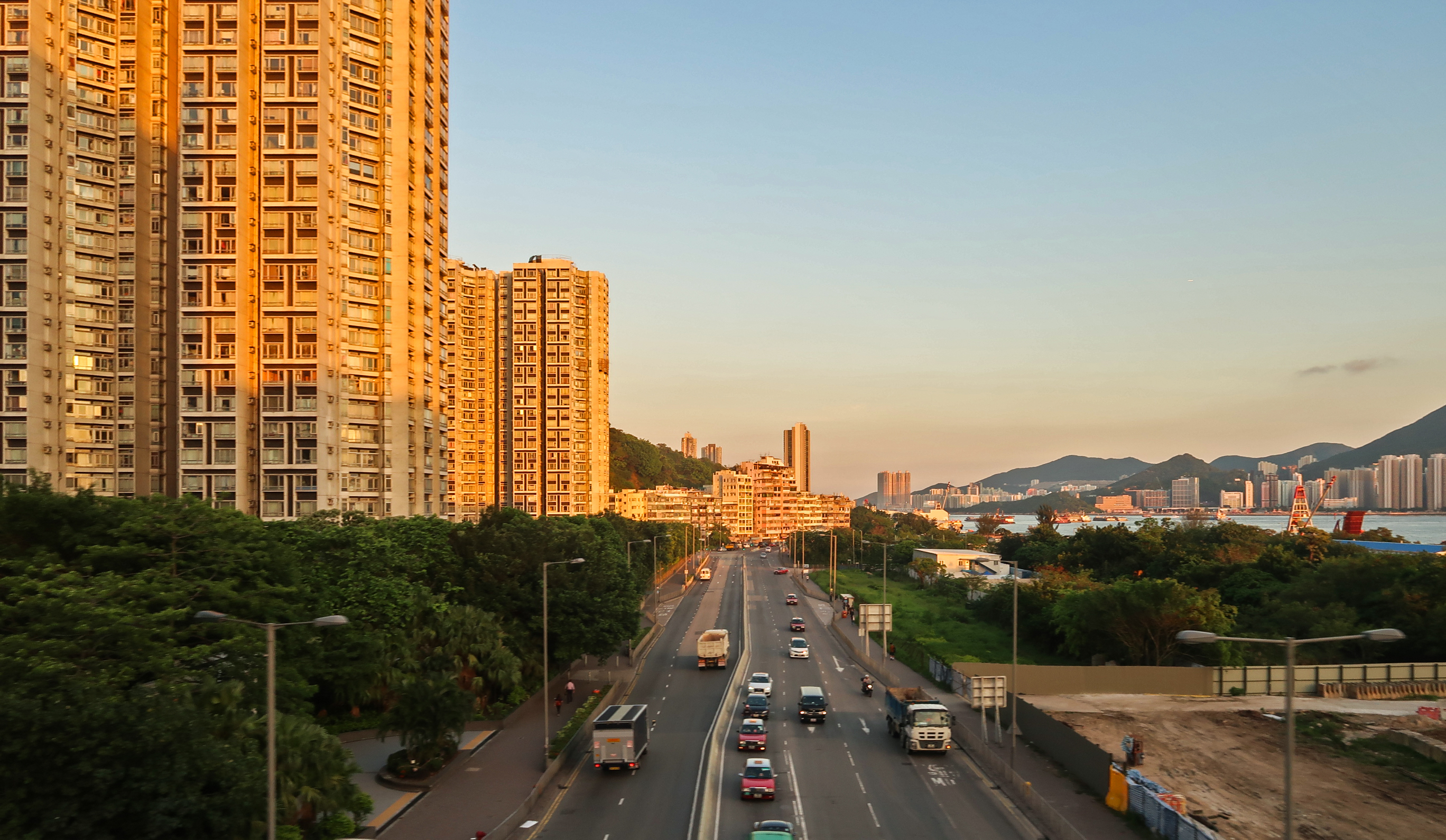 Wai Yip Street near Laguna City